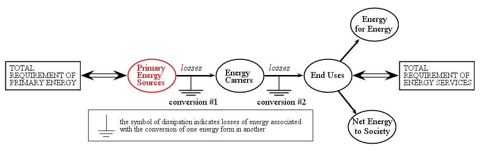 Different of energy forms in the energy metabolism of society. Primary energy sources highlighted. Adapted from: M. Giampietro and K. Mayumi, "The The Biofuel Delusion: The Fallacy of Large Scale Agro-Biofuels Production", Earthscan, 2009.